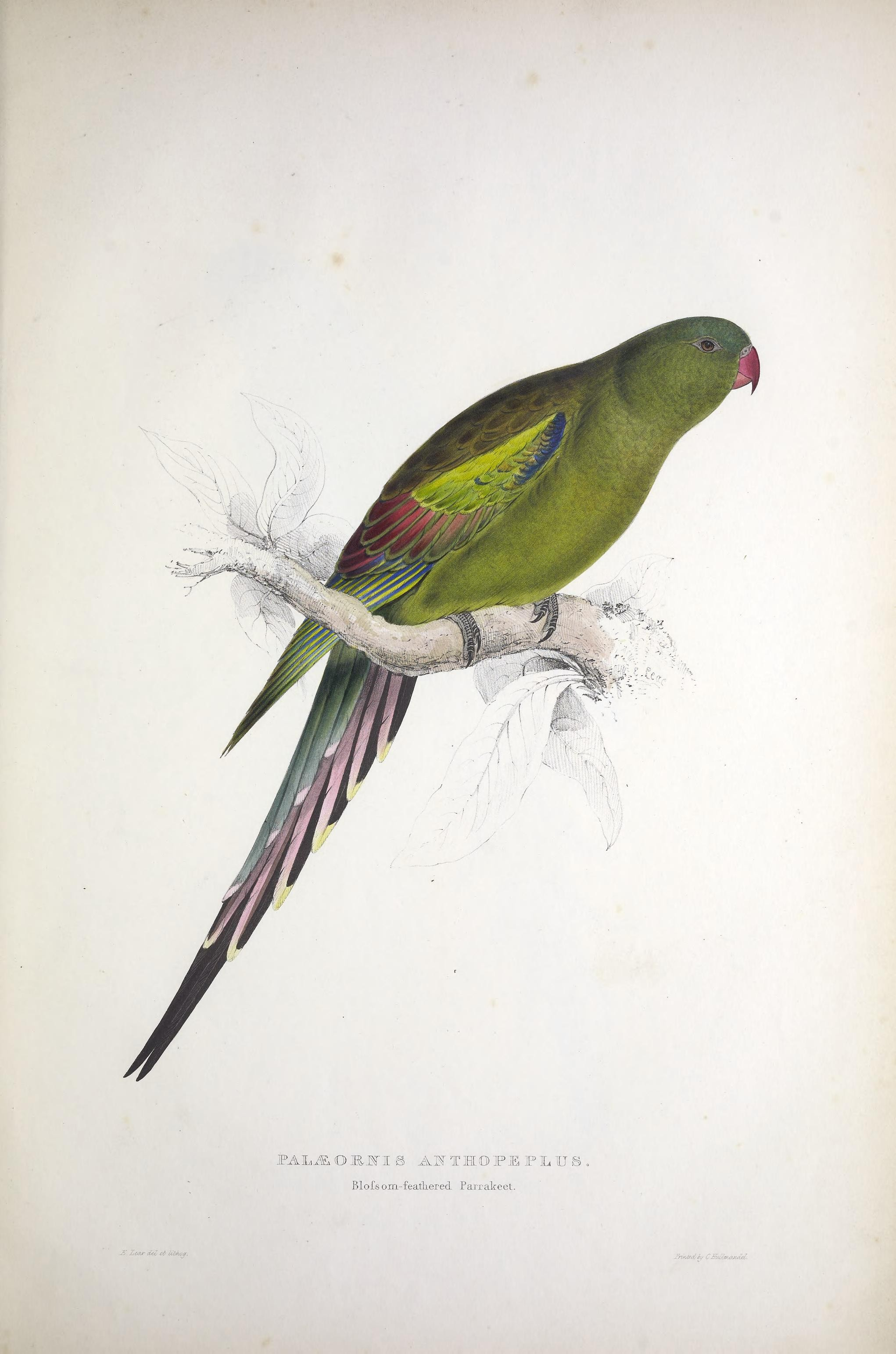 JPALi^ O MN1 S AI TMO IP.E F ~h IT 8 Blofsom- feathered Parrakeet.